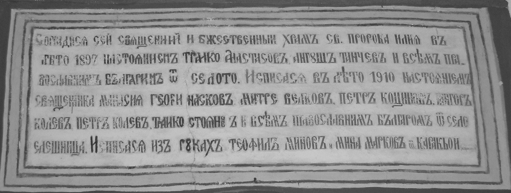 Saint Elijah Church in Belasitsa Inscription